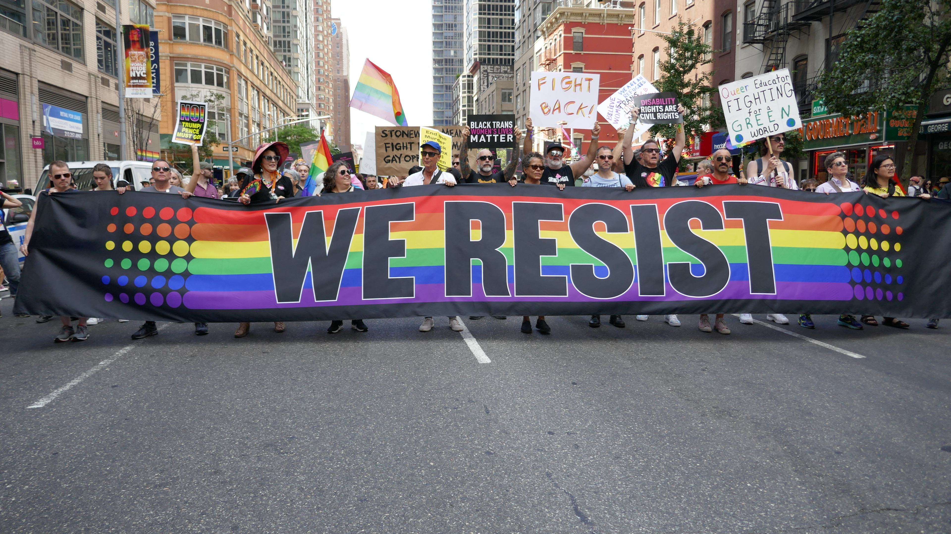 We Resist sign at the Queer Liberation March in New York City, June 30, 2019 #QueerLiberationMarch #Stonewall50 #WikiLovesPrideLocation: USA, New York CityEvent type: Queer Liberation MarchDate or year: 2019